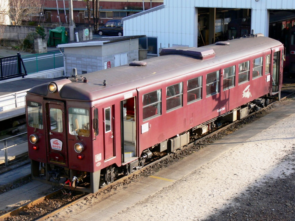 Watarase Keikoku Railway Watarase Keikoku Line Type Wa89-301 DMU at Omama Station, Gunma Prefecture, Japan)